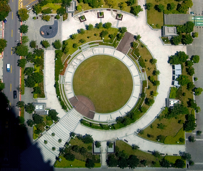 Millennium Park at Taipei 101 as seen from the skyscraper's Indoor Observatory on Floor 89. The park is designed as the face of sundial, using the tower's shadow to mark afternoon hours. (Taipei, Taiwan)